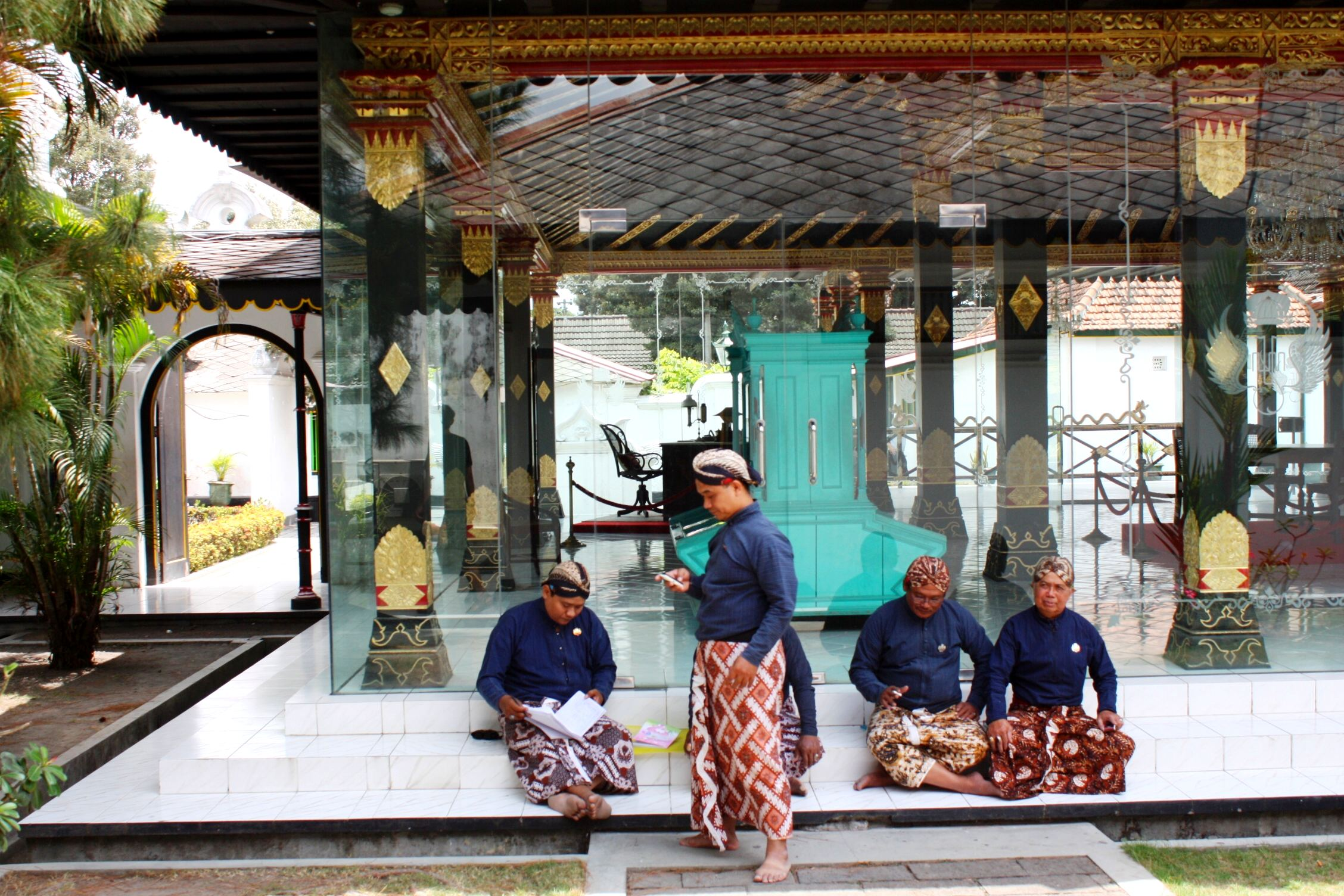 Traditional Gardener People in front of the Glass Building in the Kraton Palace